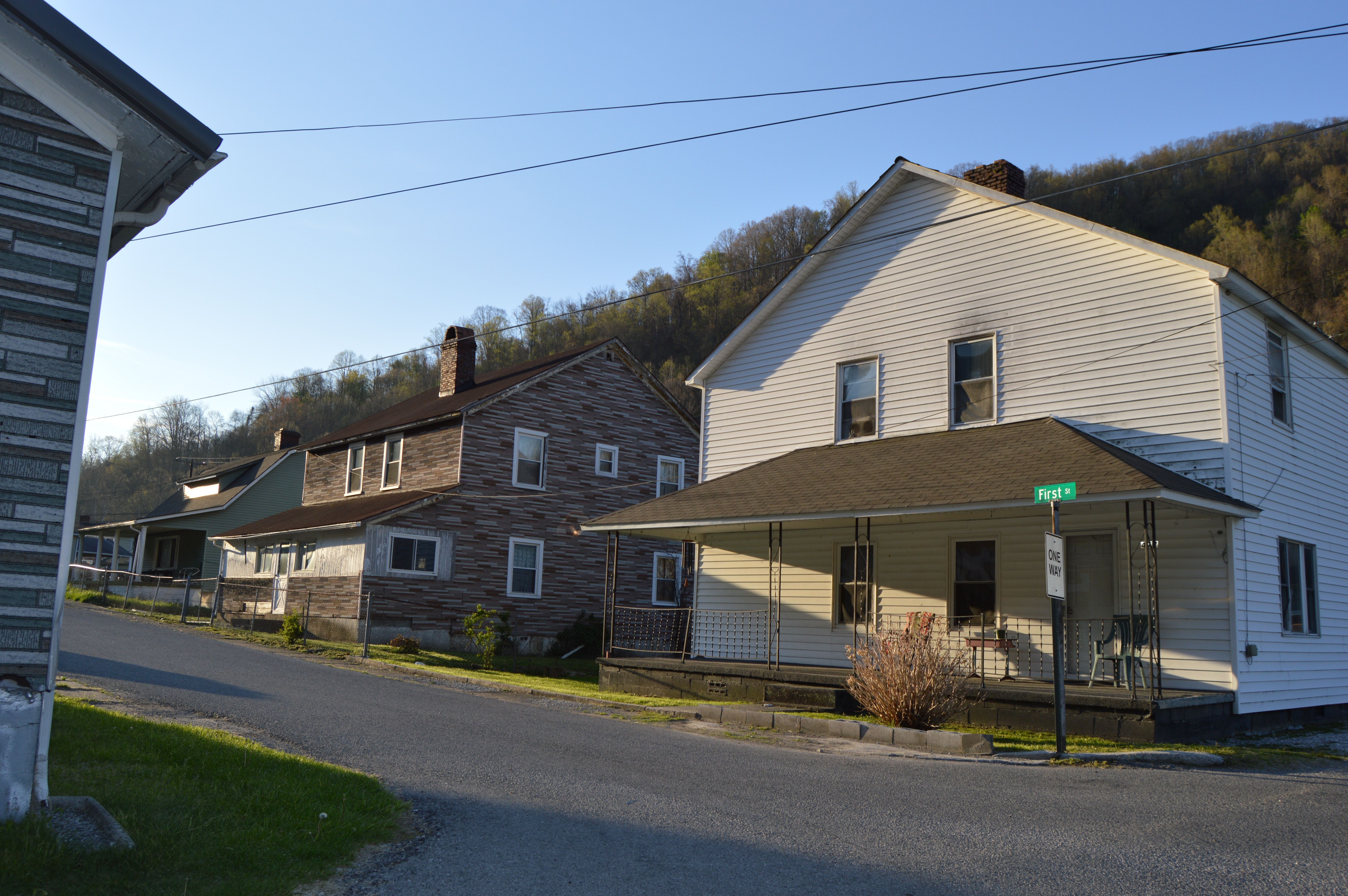 Houses at the western end of First Street, seen from Pirate Way, in Lynch, Kentucky, United States. These houses are part of the Lynch Historic District, a historic district that is listed on the National Register of Historic Places.